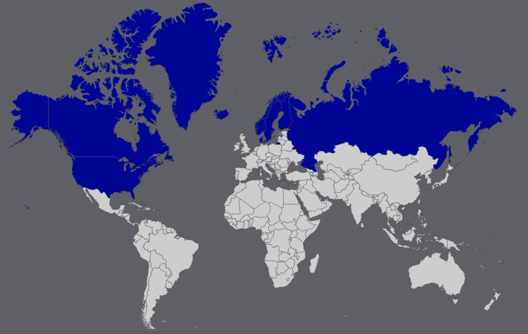 Arctic countries based on countries and their territories bordering the arctic circle